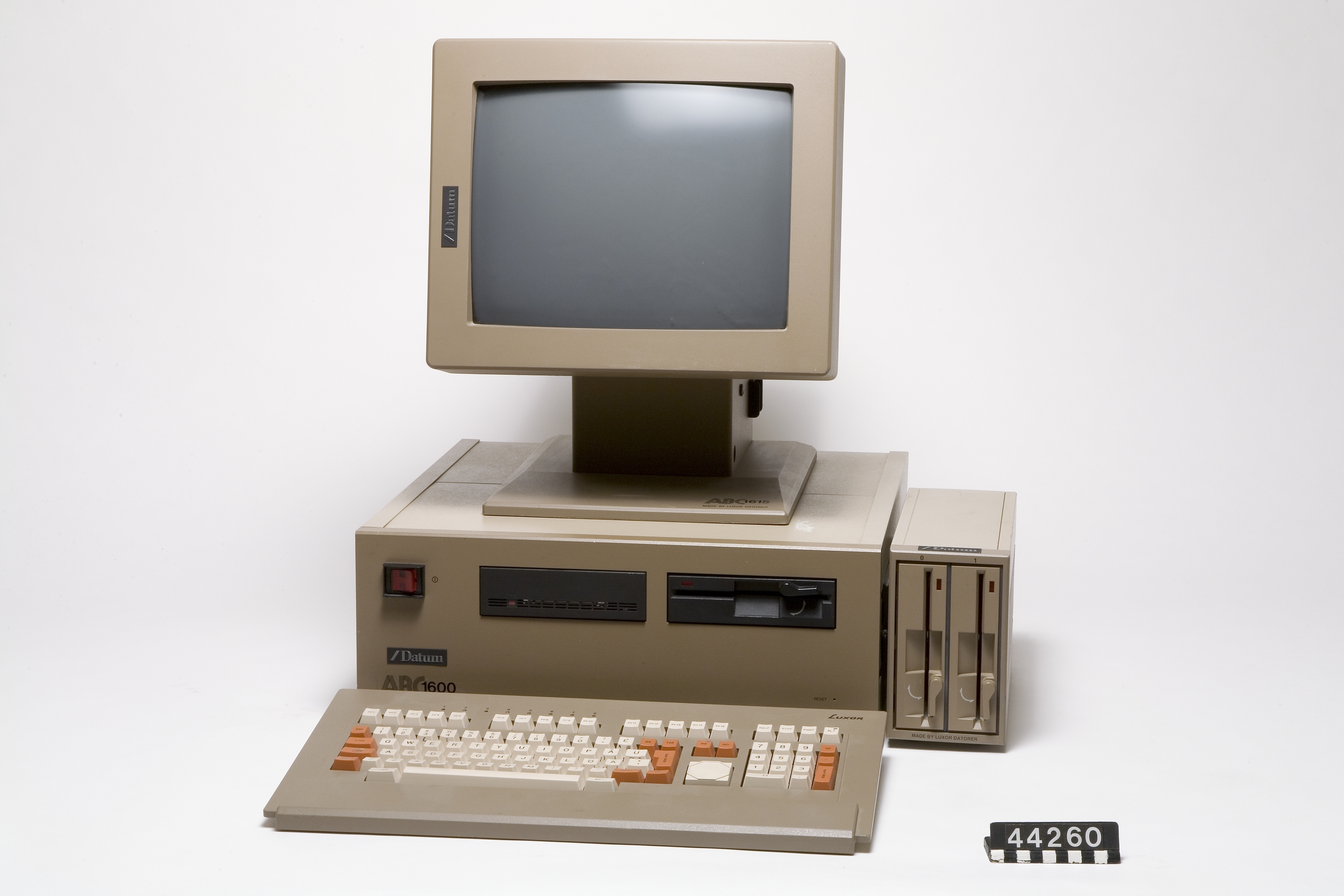 The Luxor ABC 1600 was introduced in 1983 alongside ABC 9000 as the first UNIX-computers from Luxor.